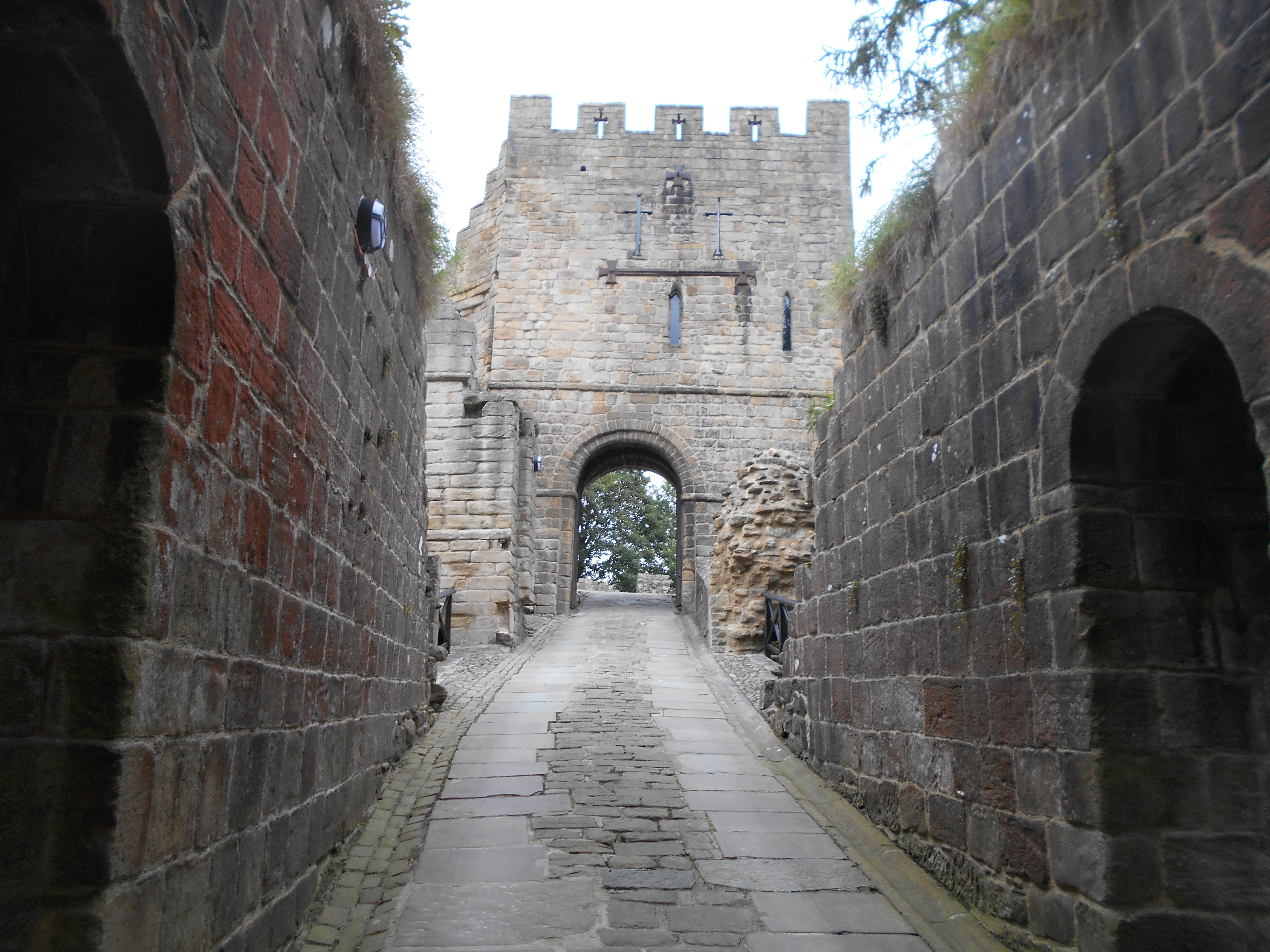 Prudhoe Castle Wikidata has entry Q4185858 with data related to this item.